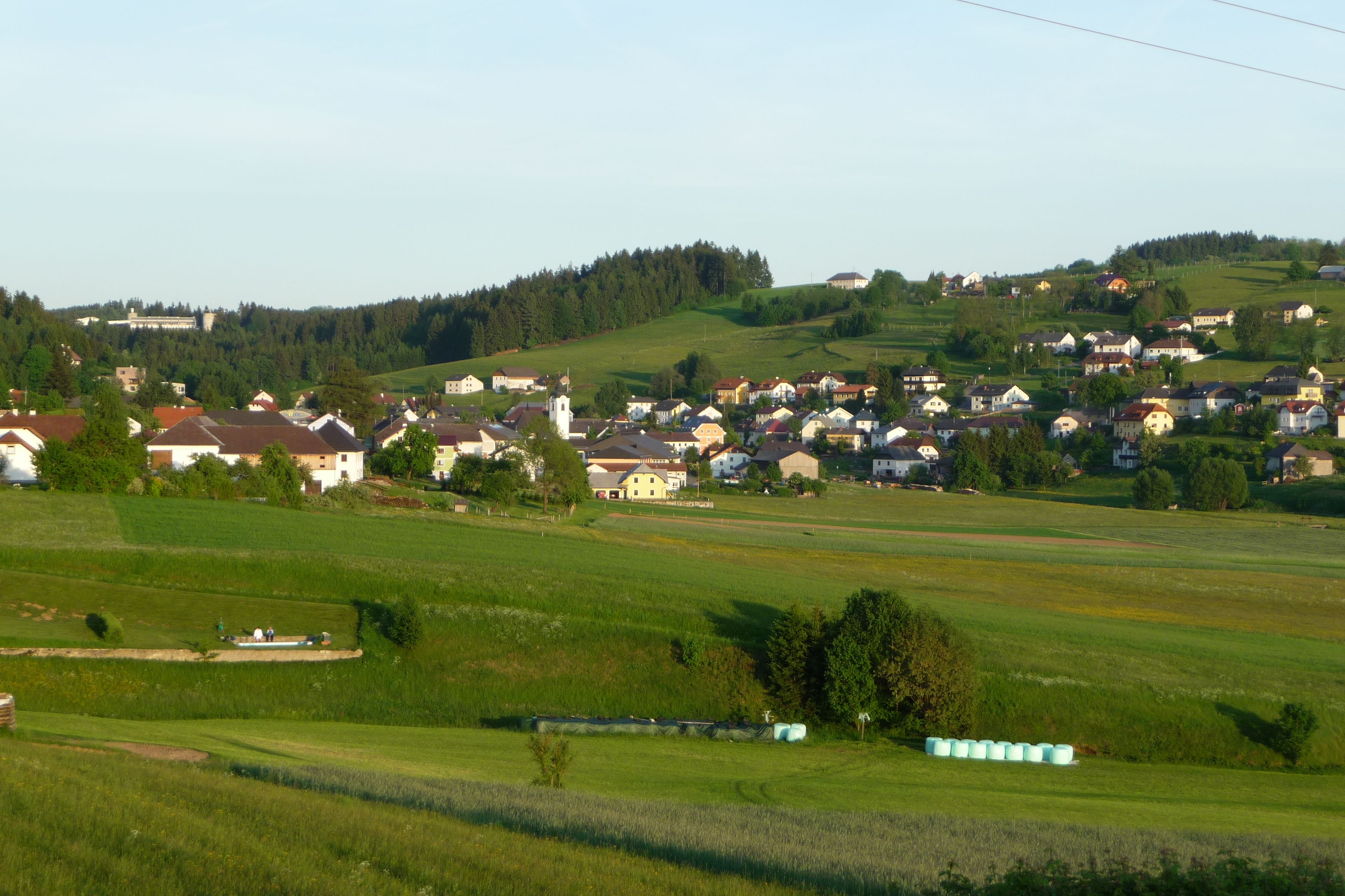 View of Vorderweißenbach